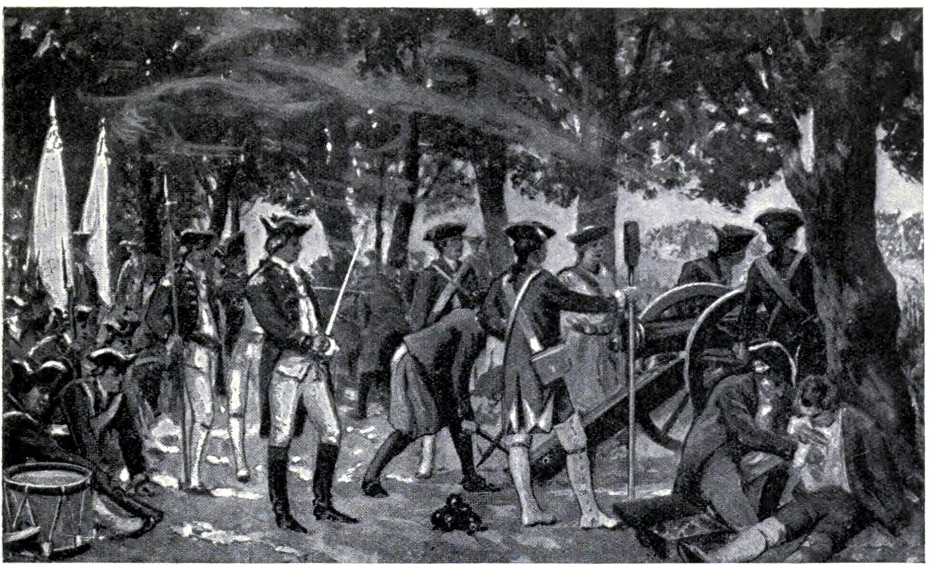 The battle of Plassey, June 23, 1757. From Hutchinson's story of the nations, containing the Egyptians, the Chinese, India, the Babylonian nation, the Hittites, the Assyrians, the Phoenicians and the Carthaginians, the Phrygians, the Lydians, and other nations of Asia Minor.